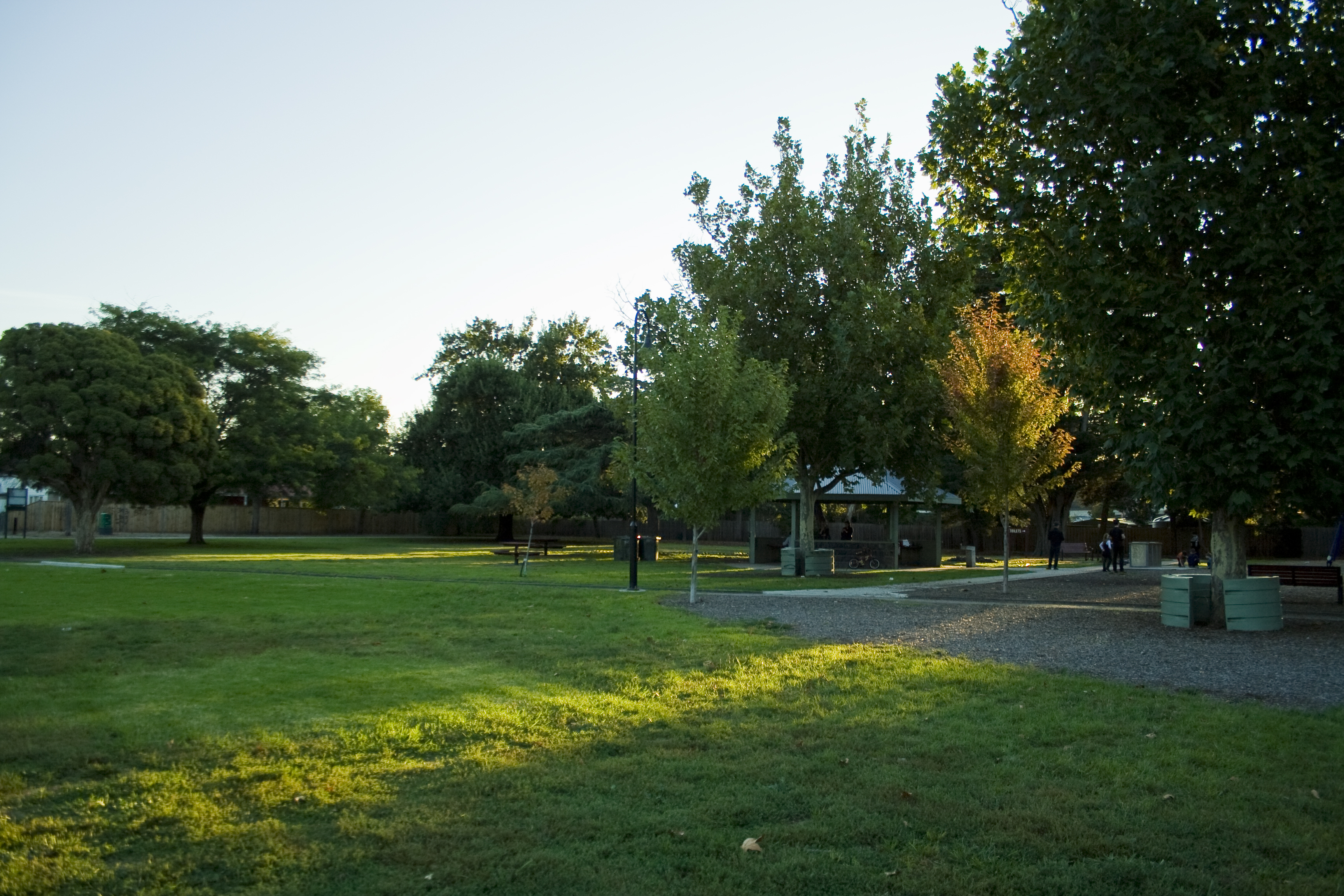 Johnson Park, Northcote, Victoria, Australia. A view of the picnic rotunda.